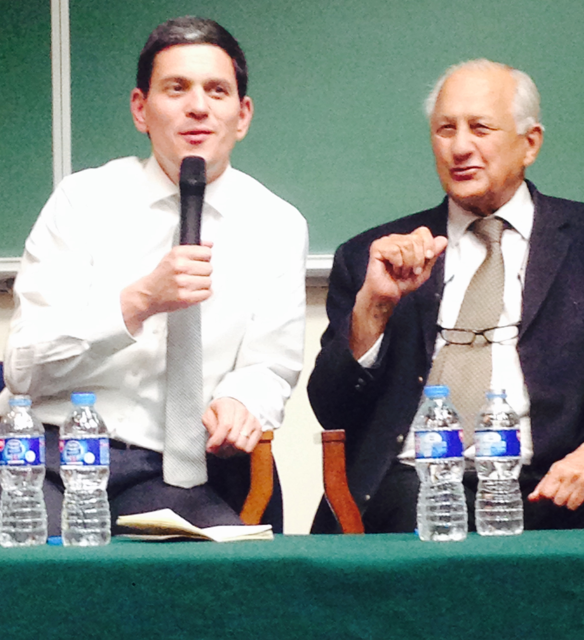 David Milliband with Mr Shahryar Khan (Ex Foreign Secretary Pakistan & Chairman Pakistan Cricket Board) at Lahore University of Management Sciences